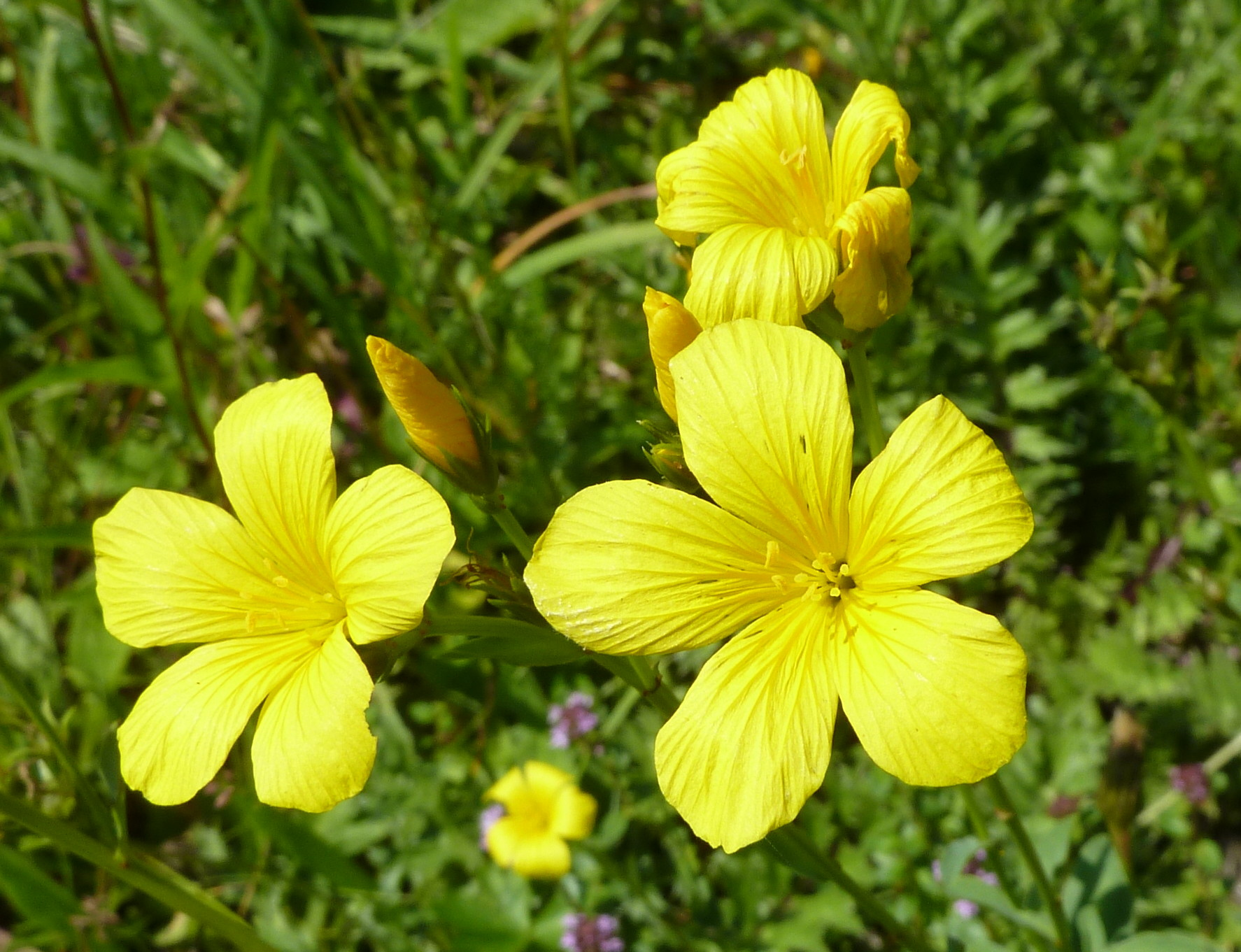 Golden flax (Linum flavum) in Natural monument Kamenná (north-eastern Moravia, Czech Republic)